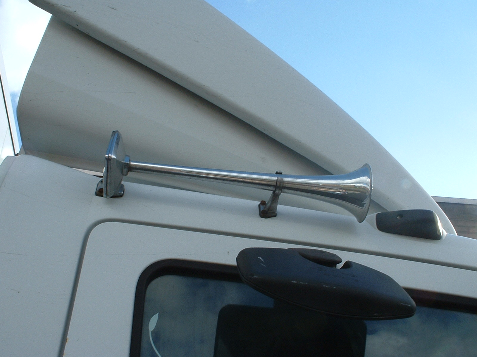 claxon luchthoorn